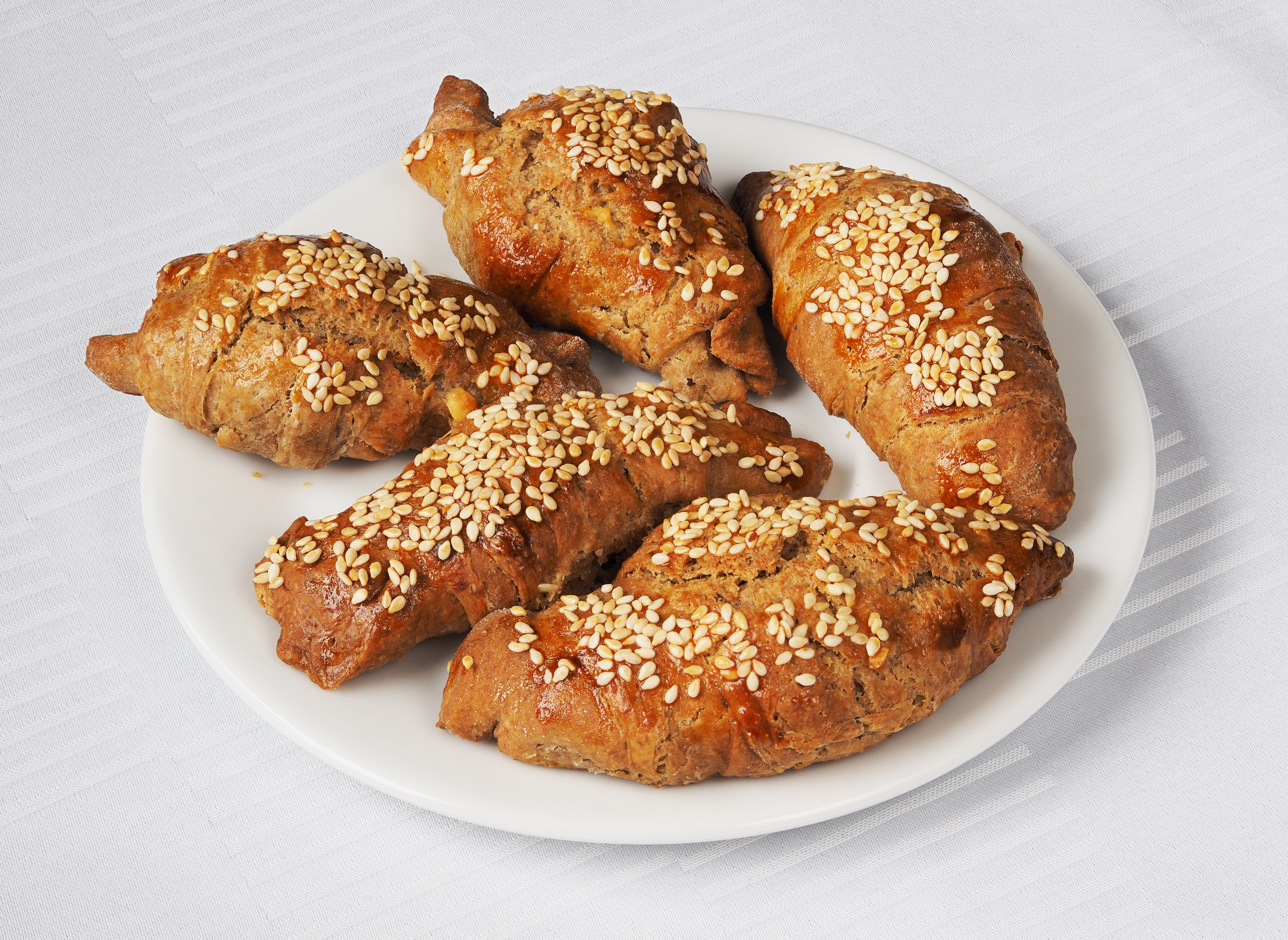 Kifli made with spelt flour, filled with sheep's cheese, topped with sesame seeds. Made for Christmas (January 7) 2018. In Serbian, singular is kifla, plural is kiflice. (Cuisine of Serbia)